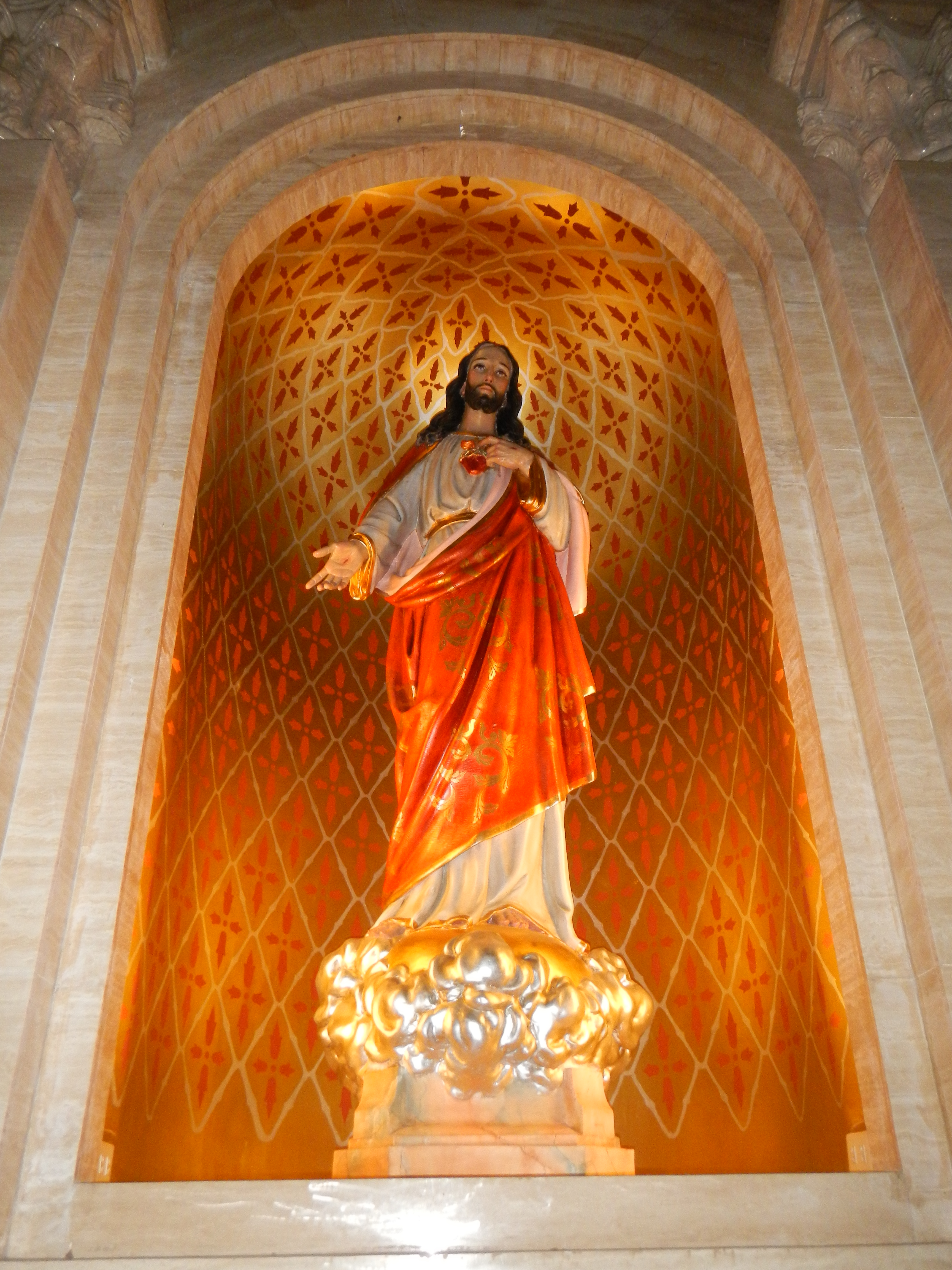 Cathedral-Parish of Saint Paul the First Hermit of San Pablo, N. Paulino St, Barangay V-D, Poblacion, San Pablo City (San Pablo Cathedral) San Pablo, Philippines [1] Parish Priest :Rev. Msgr. Melchor A. Barcenas, JCL, VG[2] 14° 04.187N 121° 19.591E [3] Type: Roman-Rite Cathedral Cathedral Rite: Roman (Latin) Patron: St. Paul the Hermit Bishop: Bishop Buenaventura Malayo Famadico -- Vicariate of Saint Paul the First Hermit It belongs to the Roman Catholic Diocese of Antipolo[4] Paul of Thebes Website [5] Saint Paul The first Hermit (Anba Boula) (Ava Pavly) , commonly known as Saint Paul the First Hermit or St Paul the Anchorite (d. c. 341) is regarded as the first Christian hermit. He is not to be confused with Paul the Simple, who was a disciple of Anthony the Great. --- San Pablo, Laguna [6] [7] [8] [9] [10] 14° 4' 11.11" N 121° 19' 34.88" E [11] Coordinates: 14°4'10"N 121°19'36"E [12] List of Parishes of the Roman Catholic Diocese of San Pablo Rector: Msgr. Melchor A. Barcenas, VGParochial Vicars: Father Michael V. Brosas Father Rico A. Villareal - EPISCOPAL DISTRICT III Episcopal Vicar: Msgr. Mario Rafael M. Castillo, HP - Vicar Forane: Father Eduardo E. Arupo [13] -- The City of San Pablo (Filipino: Lungsod ng San Pablo), a first class city in the southern portion of Laguna province, Philippines, is one of the country's oldest cities - more popularly known as the "City of Seven Lakes", referring to the Seven Lakes of San Pablo [14](Filipino: Lungsod ng Pitong Lawa): Lake Sampaloc [15] (or Sampalok), Lake Palakpakin, Lake Bunot, Lakes Pandin and Yambo, Lake Muhikap, and Lake Calibato. San Pablo City was part of the Roman Catholic Archdiocese of Lipa since 1910. On November 28, 1967, it became an independent diocese and became the Roman Catholic Diocese of San Pablo.